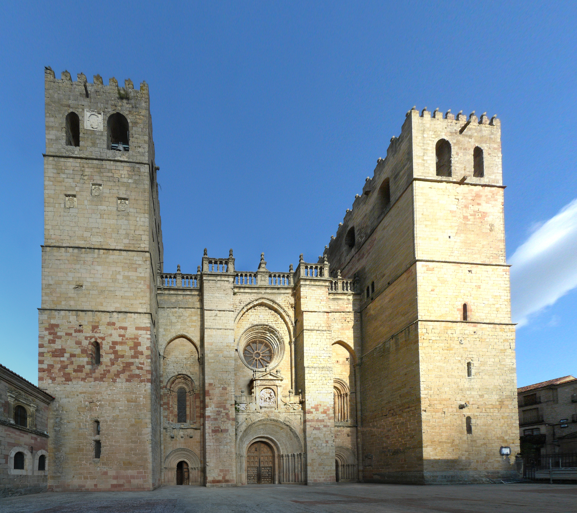 Western view of the Cathedral of SiGéunza, Guadalajara (Spain).